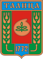 Talitsa (Sverdlovsk oblast), coat of arms (1982)